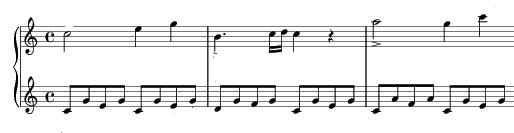 Opening measures of Sonata in Cmajor K545